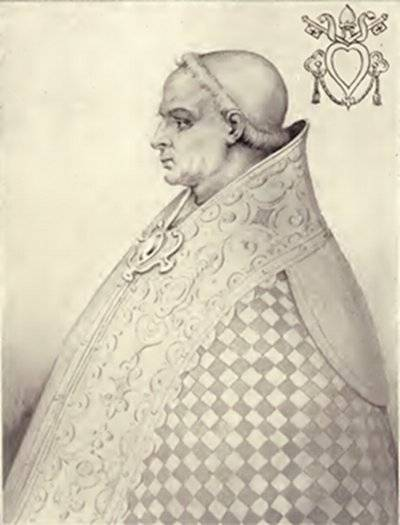 Picture of Pope Boniface II, drawing in very old style